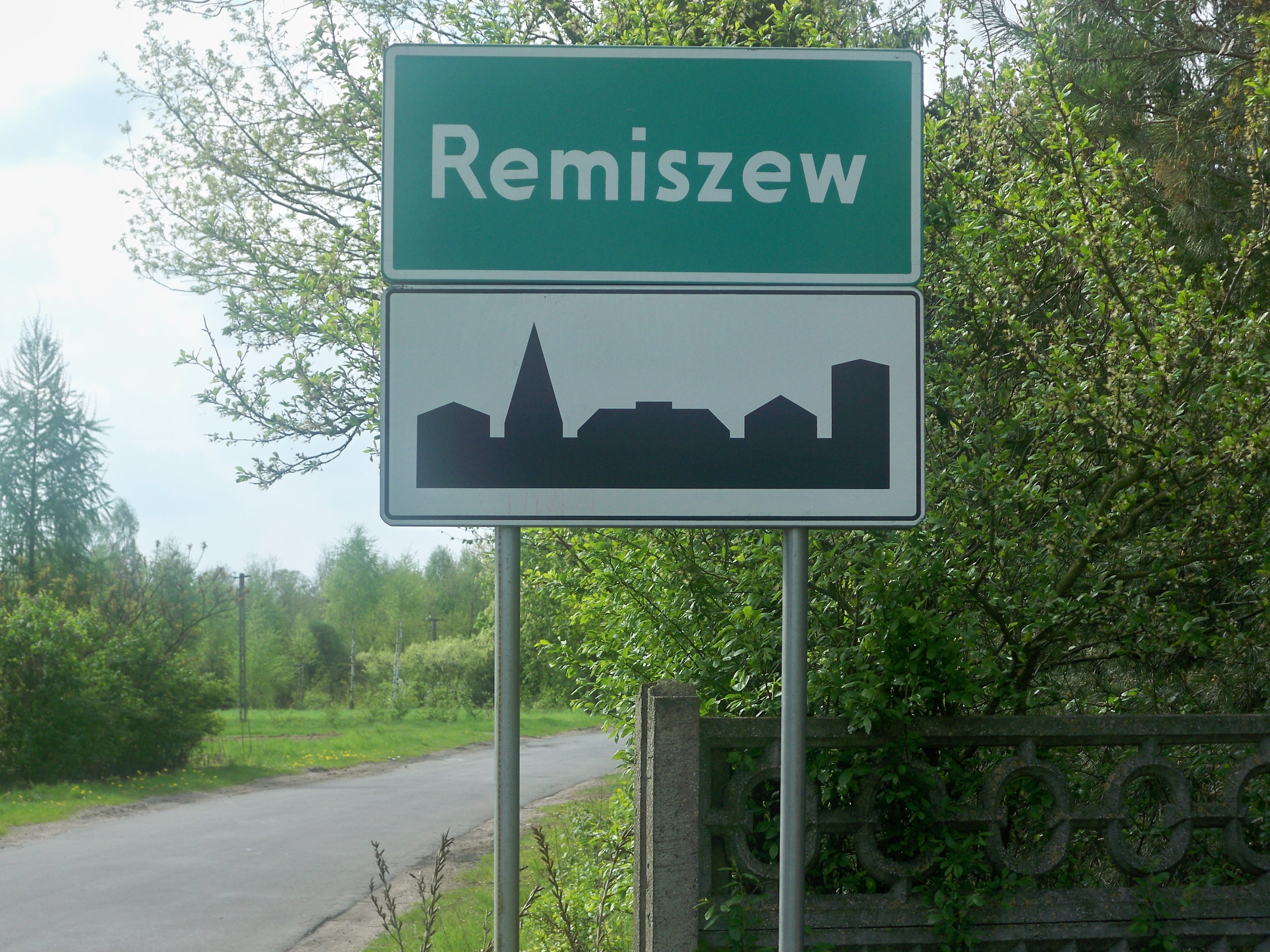 My photo